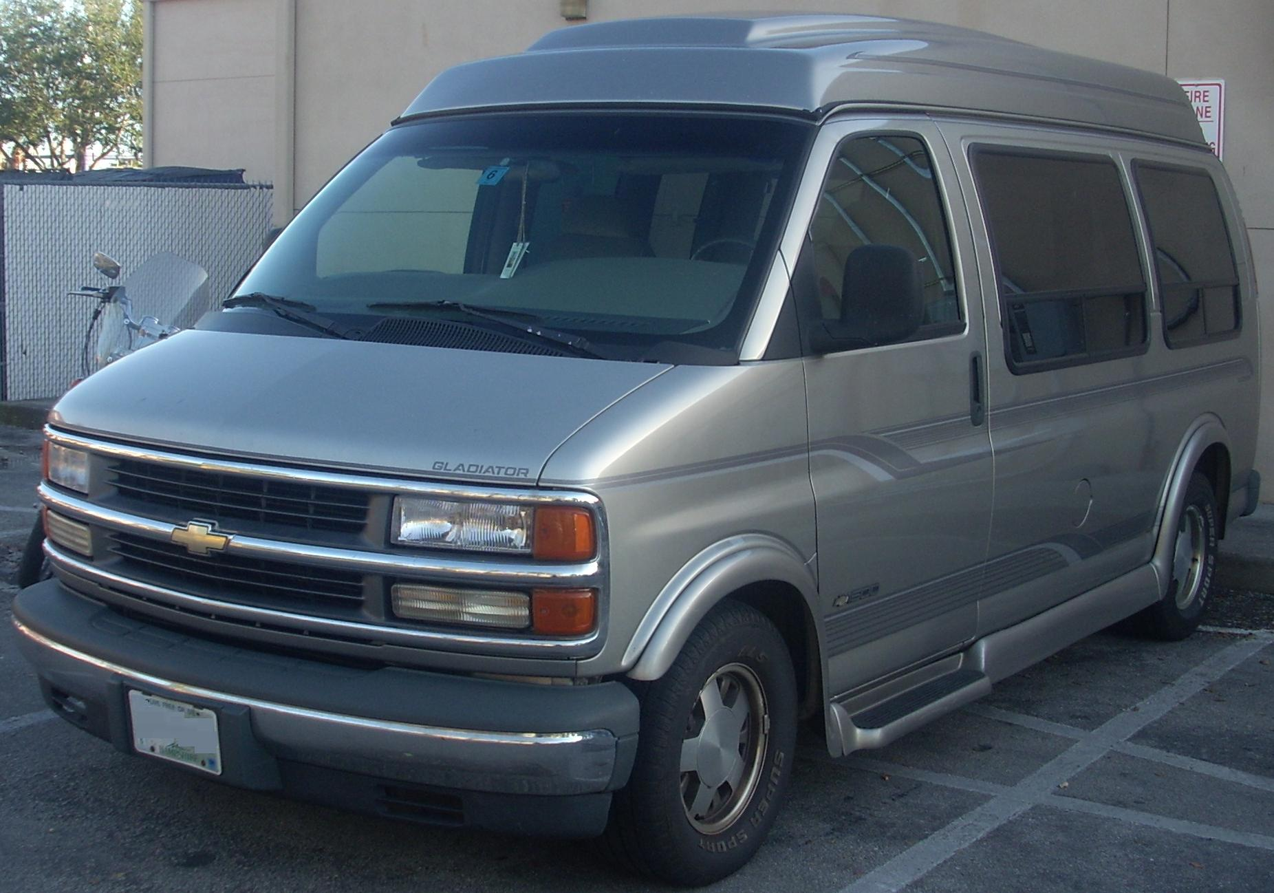 Chevrolet Express photographed in Orlando, Florida, USA.